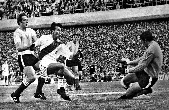 Oswaldo Ramirez scores a goal against Argentina in a match for the 1970 FIFA World Cup qualification in Buenos Aires.